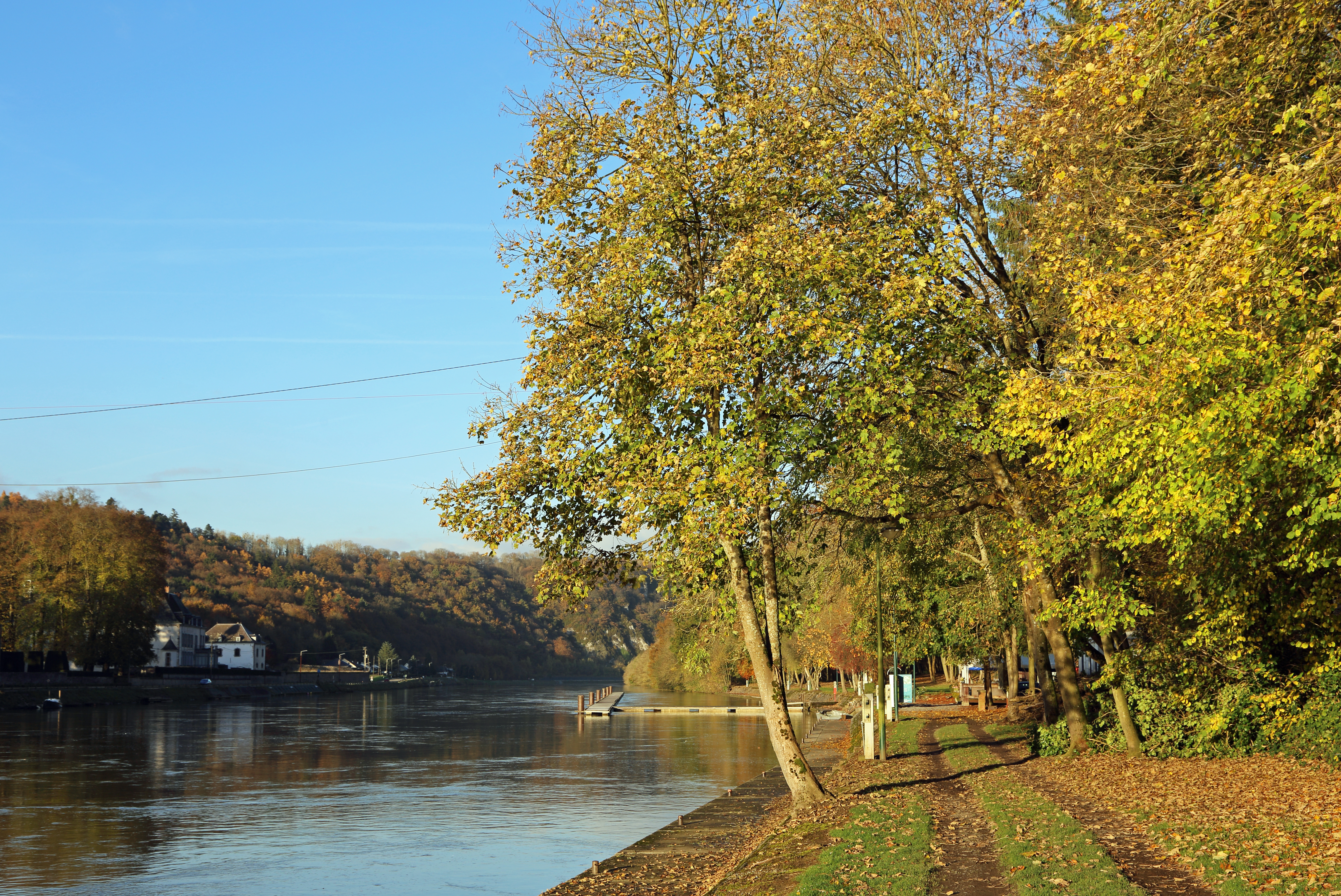 The Meuse river in Waulsort (Hastière, Belgium)